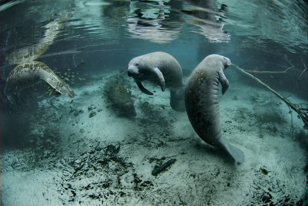 Photo credit: David Hinkel The Crystal River National Wildlife Refuge, was established in 1983 specifically for the protection of the endangered West Indian Manatee. This unique refuge preserves the last unspoiled and undeveloped habitat in Kings Bay, which forms the headwaters of the Crystal River. The refuge preserves the warm water spring havens, which provide critical habitat for the manatee populations that migrate here each winter.